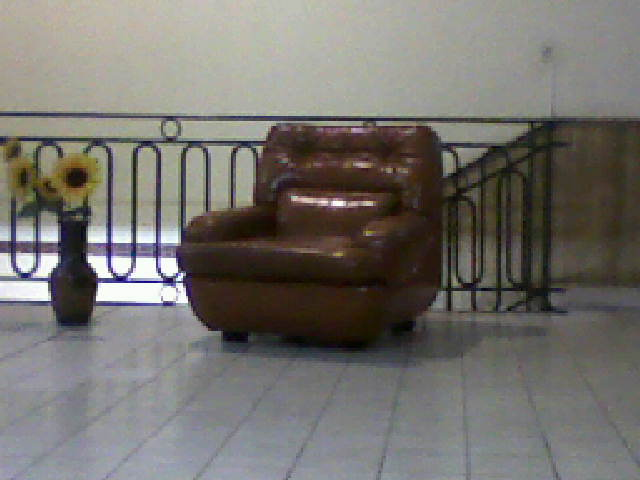 Leather armchair.